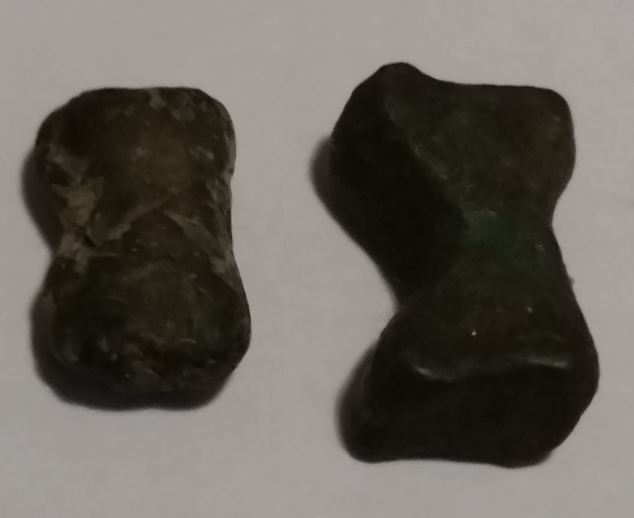 In the post-Mauryan period a tribal society at Kosambi (modern Allahabad) made cast copper coinage with and without punchmarks. Their coinage resemble the Damaru-drum. All such coinage has been attributed to the Kosambi. These coins were found in a hoard dated to c. the 1st century BC. Many Indian museums, such as the National Museum, have these coins in their collections. Sharma, Savita "Damaru-shaped Coins from Kausambi" in Society of Bombay. Numismatic Digest, 5, pp. 1–3 OCLC: 150424986.